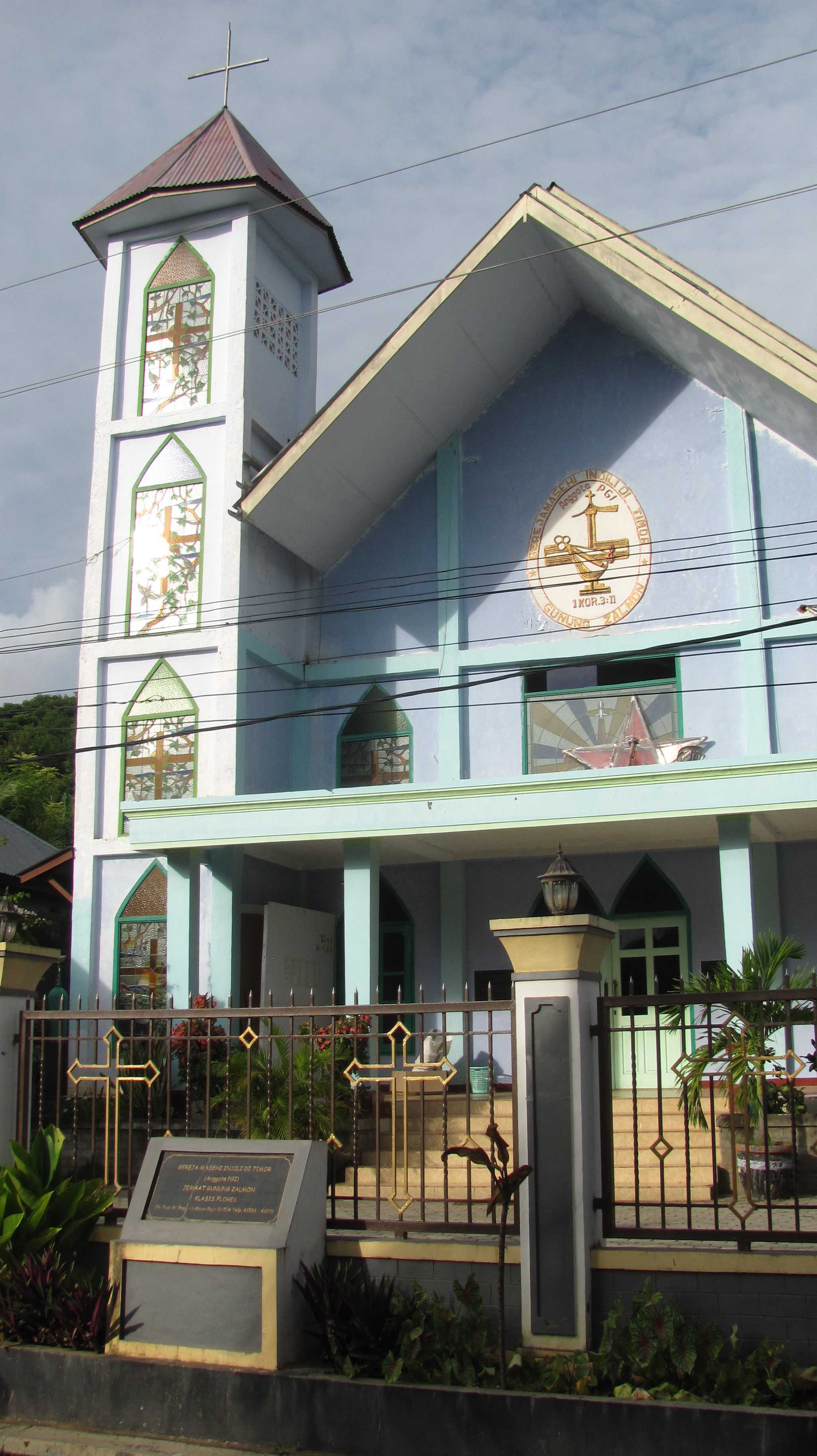 Dutch reformed church "Gereja Masehi Injili di Timor" in Labuan Bajo, Flores Island, Province of Nusa Tenggara Timur, Indonesia